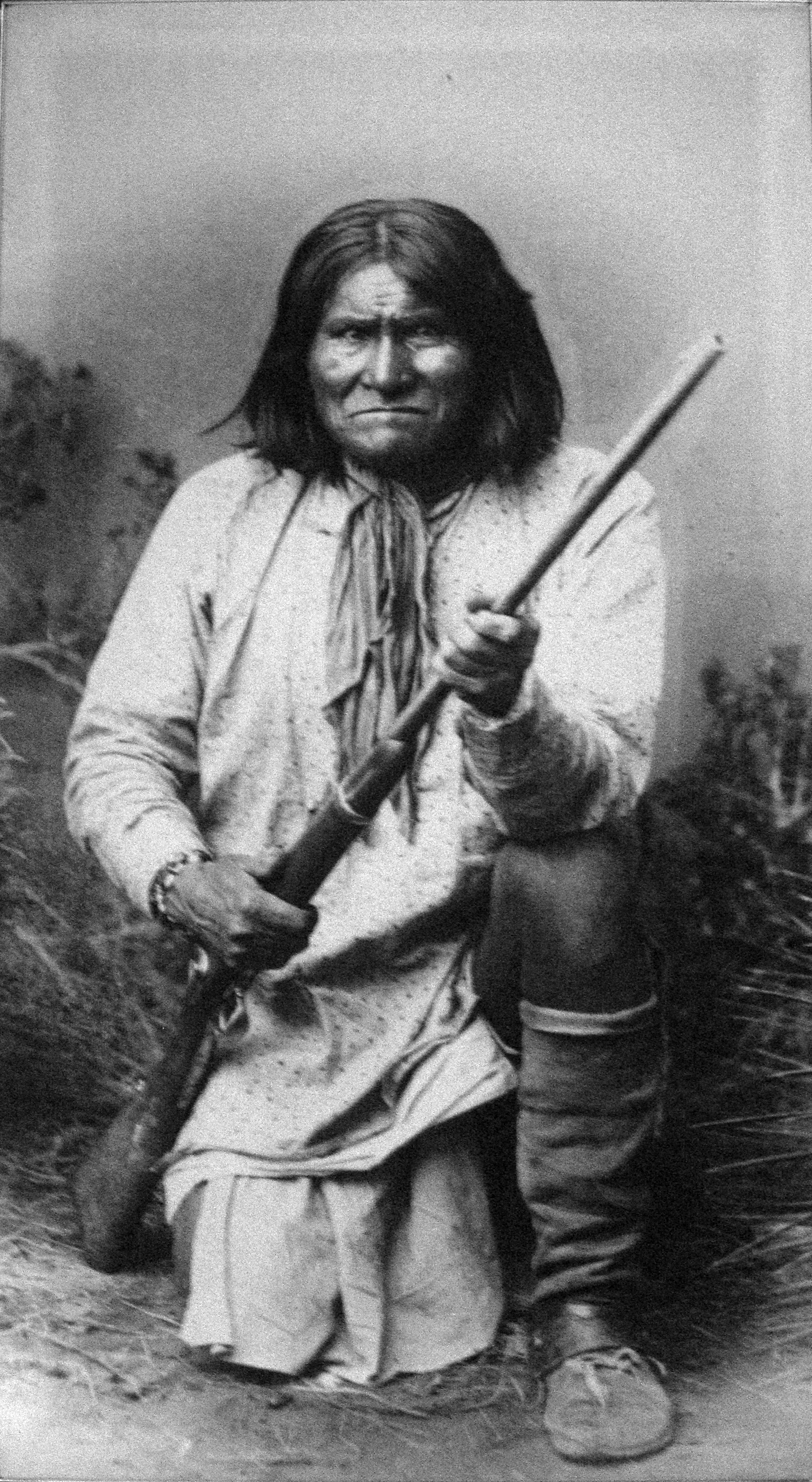 Goyathlay, later known as Geronimo (Goyaałé‚ "the one who yawns", 1829-1909), Chief of the Chiricahua Apaches, 1890